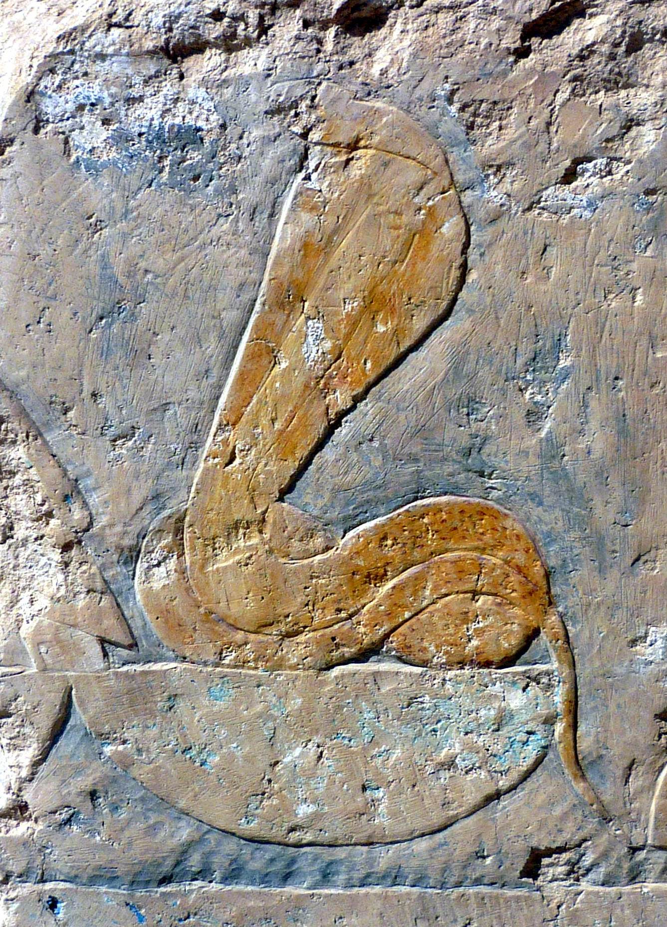 Relief of Wadjet, Hatshepsut temple, Deir el-Bahari, Theban Necropolis, Egypt